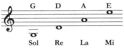 Violin open strings, tuning of a mandolin